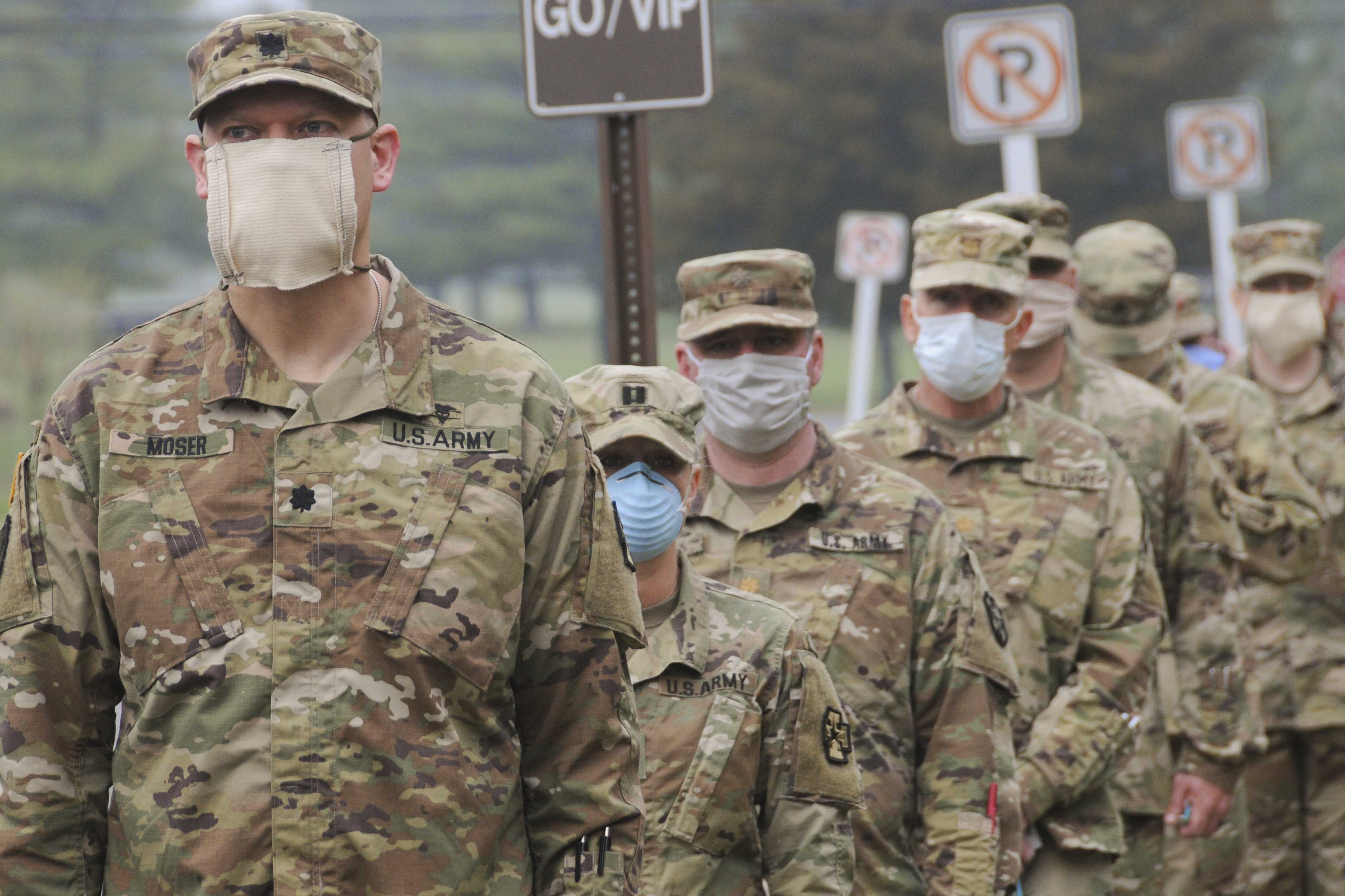 U.S. Army Reserve Urban Augmentation Medical Task Force Soldiers board buses at Joint Base McGuire-Dix-Lakehurst, New Jersey, to deploy to locations across the nation in response to the COVID-19 pandemic, April 08, 2020. Soldiers from the Army Reserve’s 3rd Medical Command, headquartered in Forest Park, Georgia, and 807th Medical Command, headquartered at Fort Douglas, Utah, were selected to form the new UAMTFs. U.S. Northern Command, through U.S. Army North, is providing military support to the Federal Emergency Management Agency to help communities in need. (U.S. Army Photo by Staff Sgt. Shawn Morris)